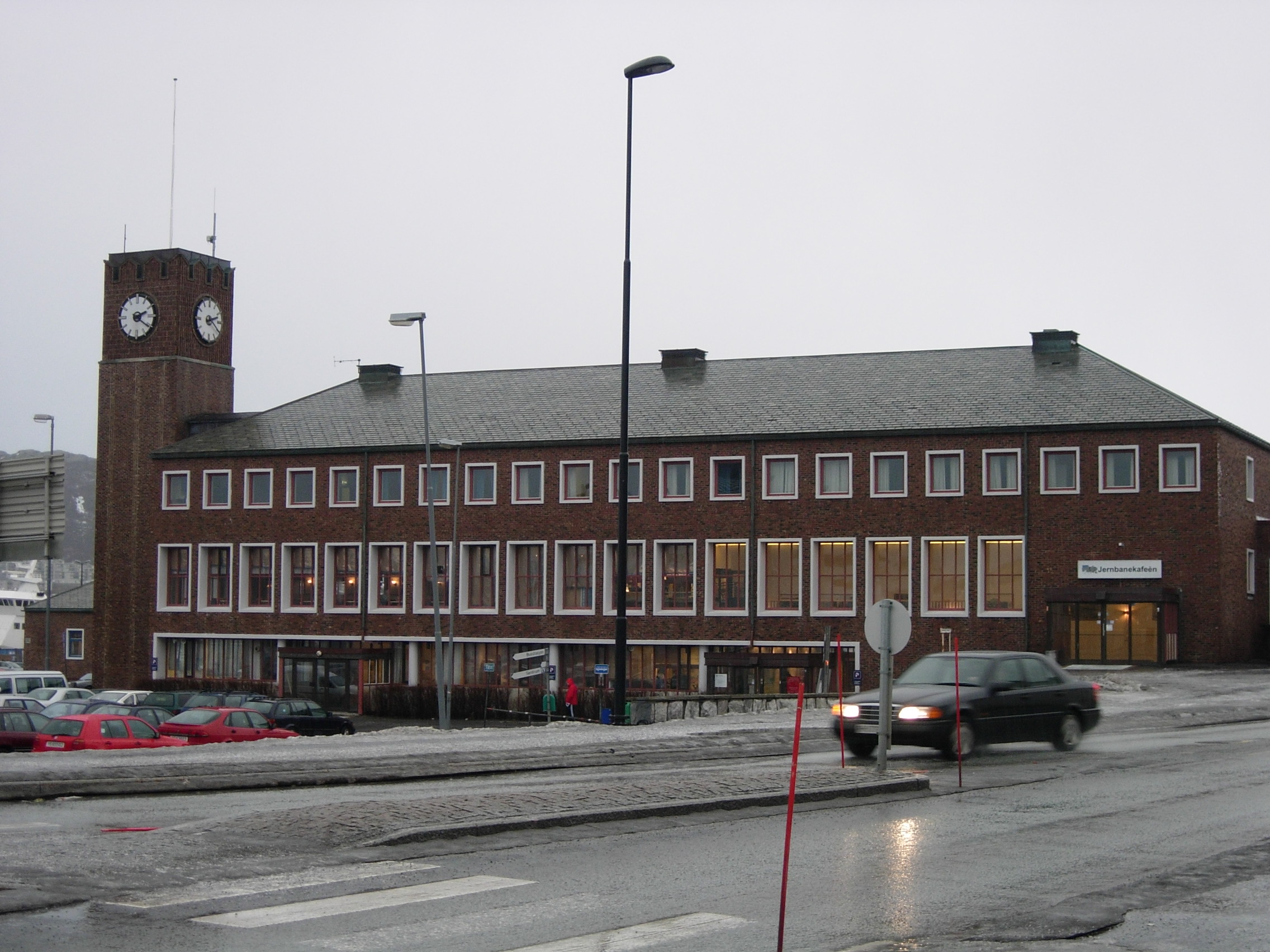 Bodø stasjon on Nordlandsbanen, Norway